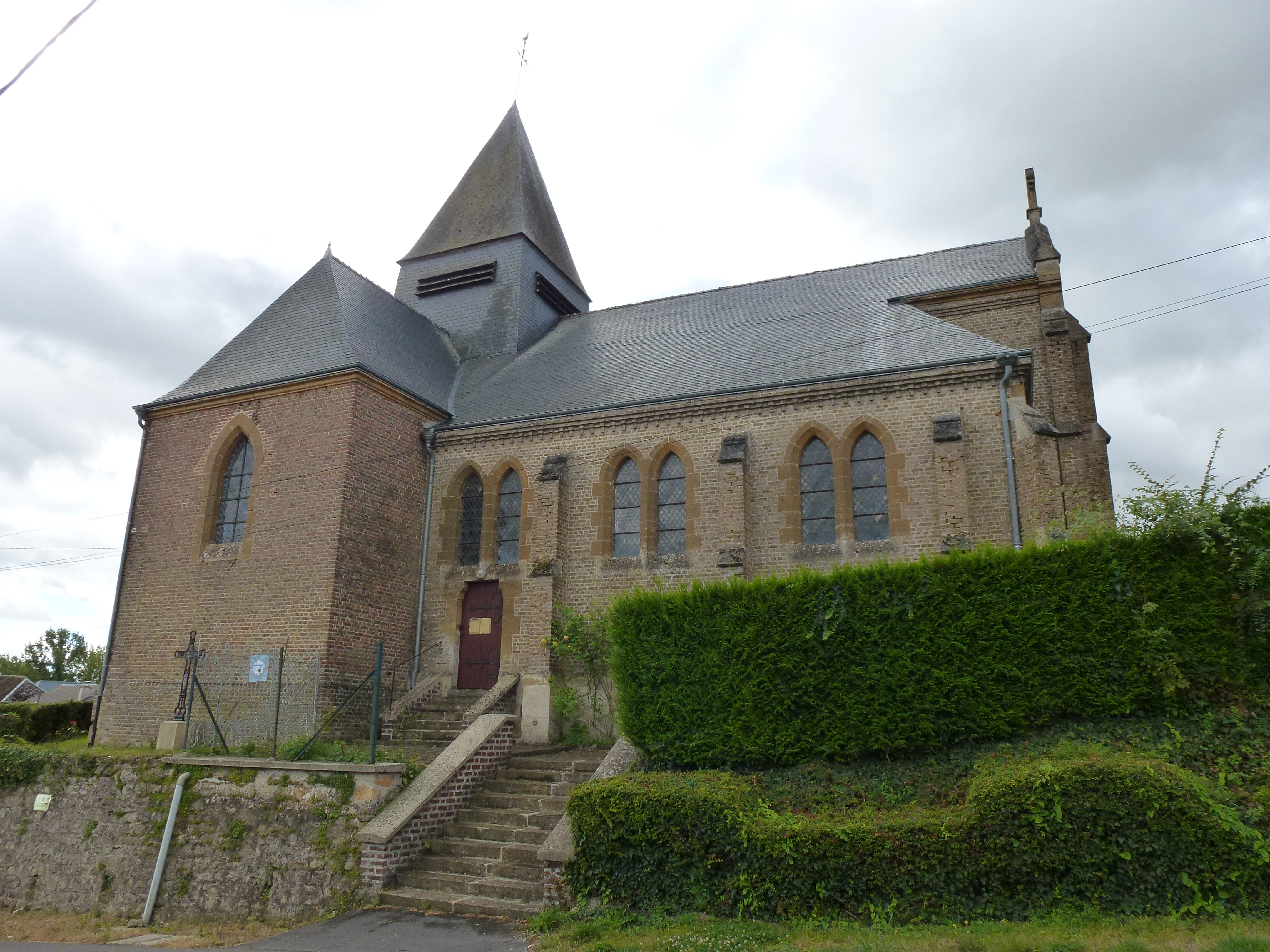 Chappes (Ardennes) église